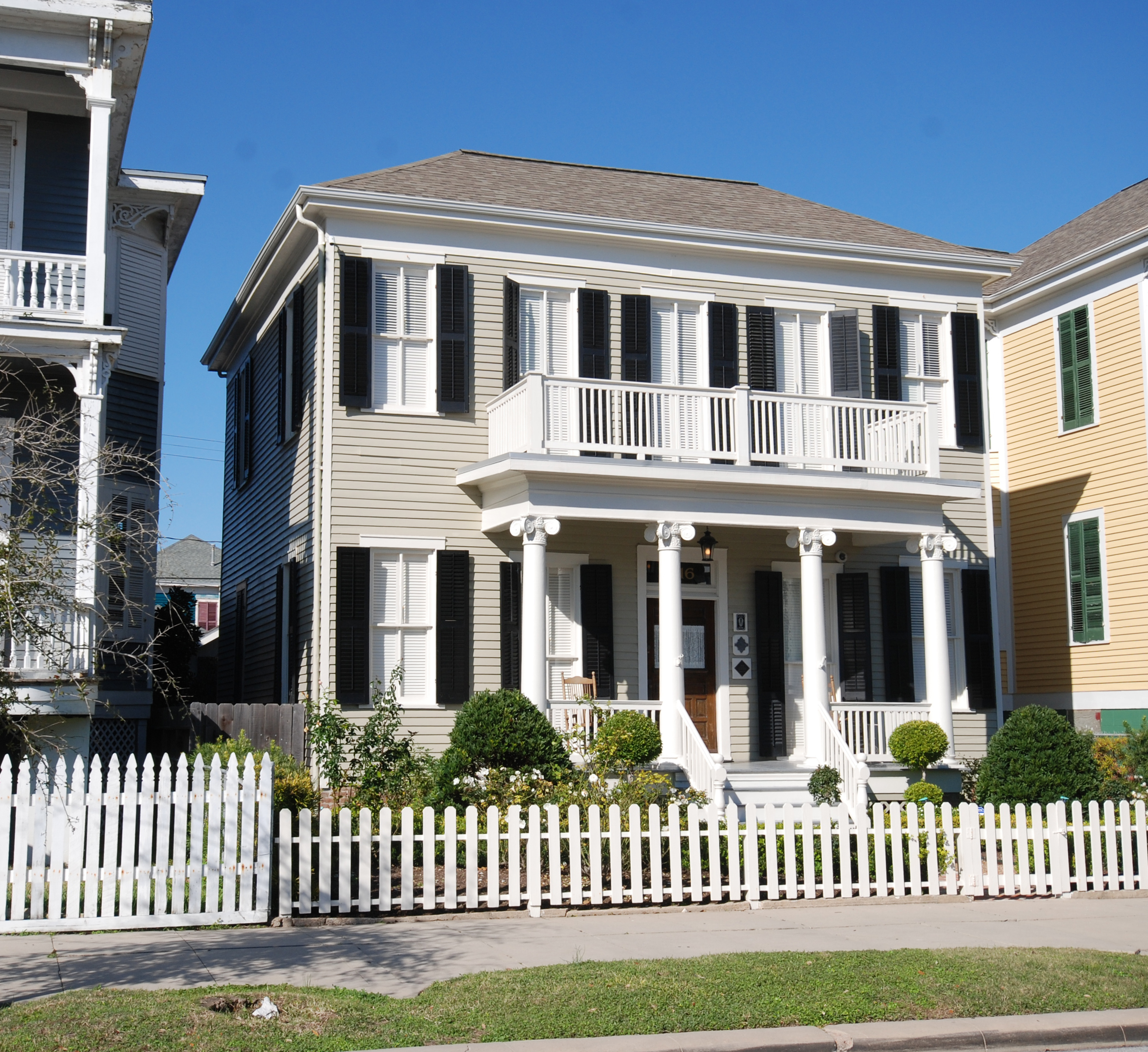 Preservation Resource Center, Galveston Historical Foundation, Galveston, Texas.